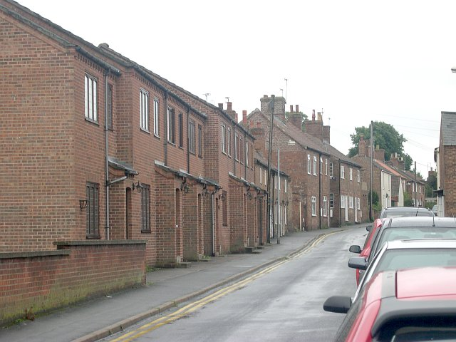 Foundry Street, Horncastle. A street of 19th century terraced houses. Some have been demolished and replaced with new housing built in a "sympathetic" style.